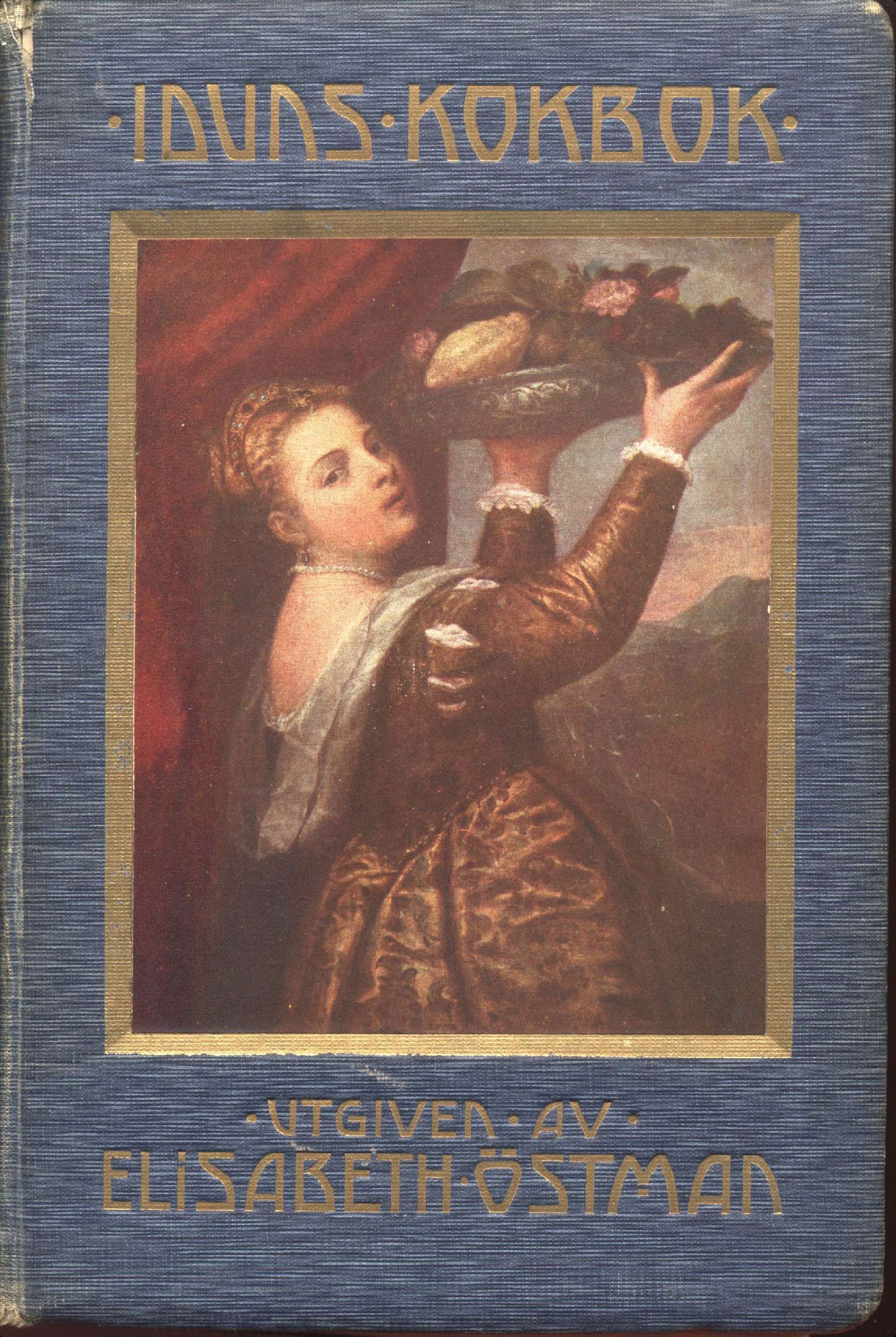 The cover of "Iduns kokbok", a book by Elisabeth Östman who died in 1933.